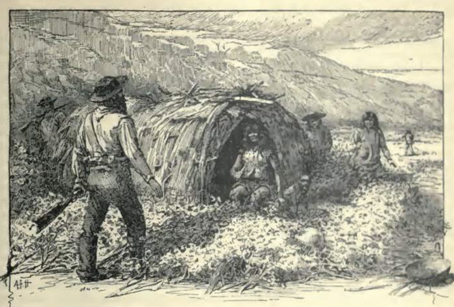 Illustration of Nicoleño woman, Juana Maria, from James M. Gibbons's "The Wild Woman of San Nicolas Island", published in Californian Illustrated Magazine 4, no. 5 (October 1893)